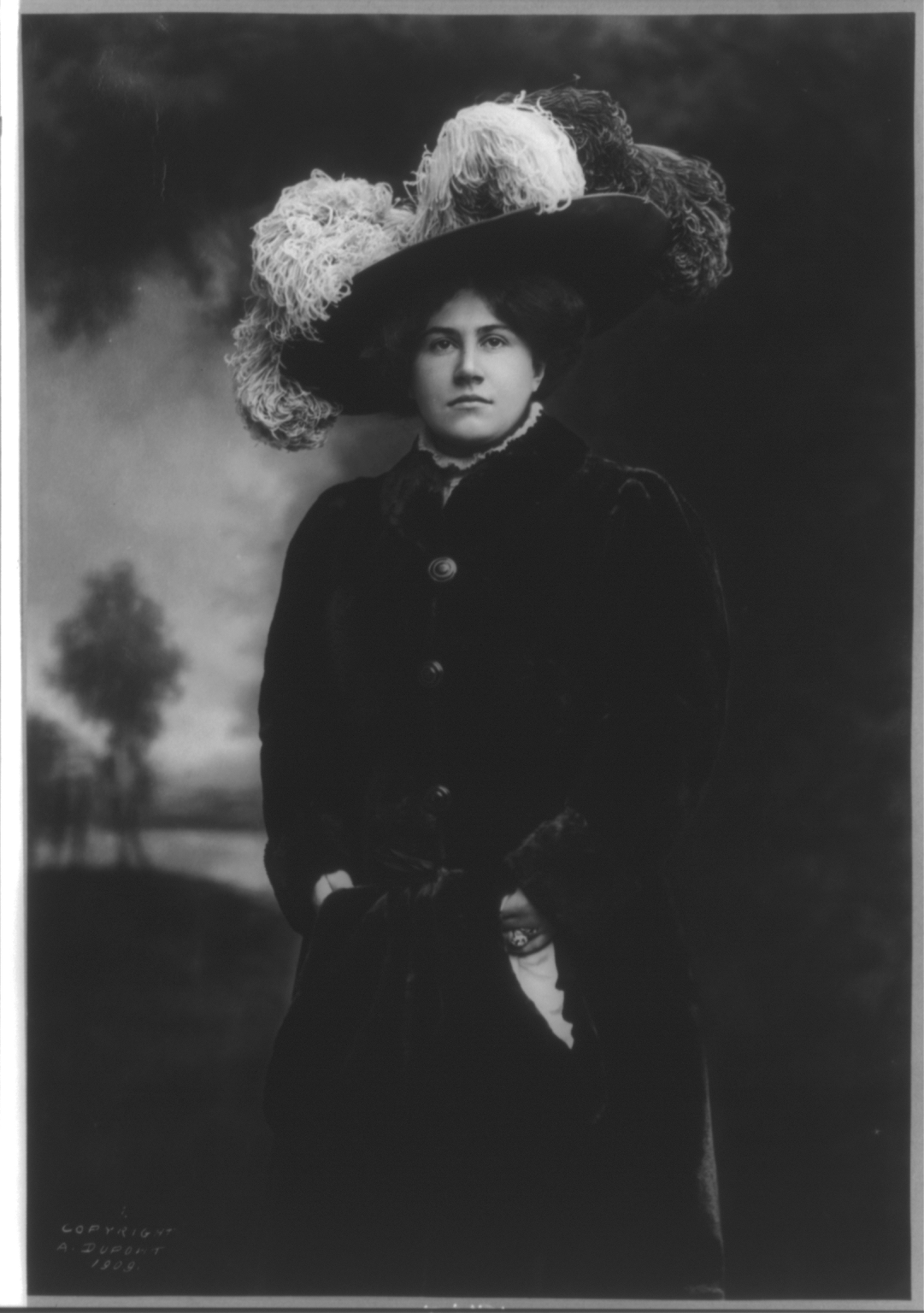 Emmy Destinn, 1878-1930, three-quarters length portrait, standing, facing left, wearing a fur coat and a hat with feathers